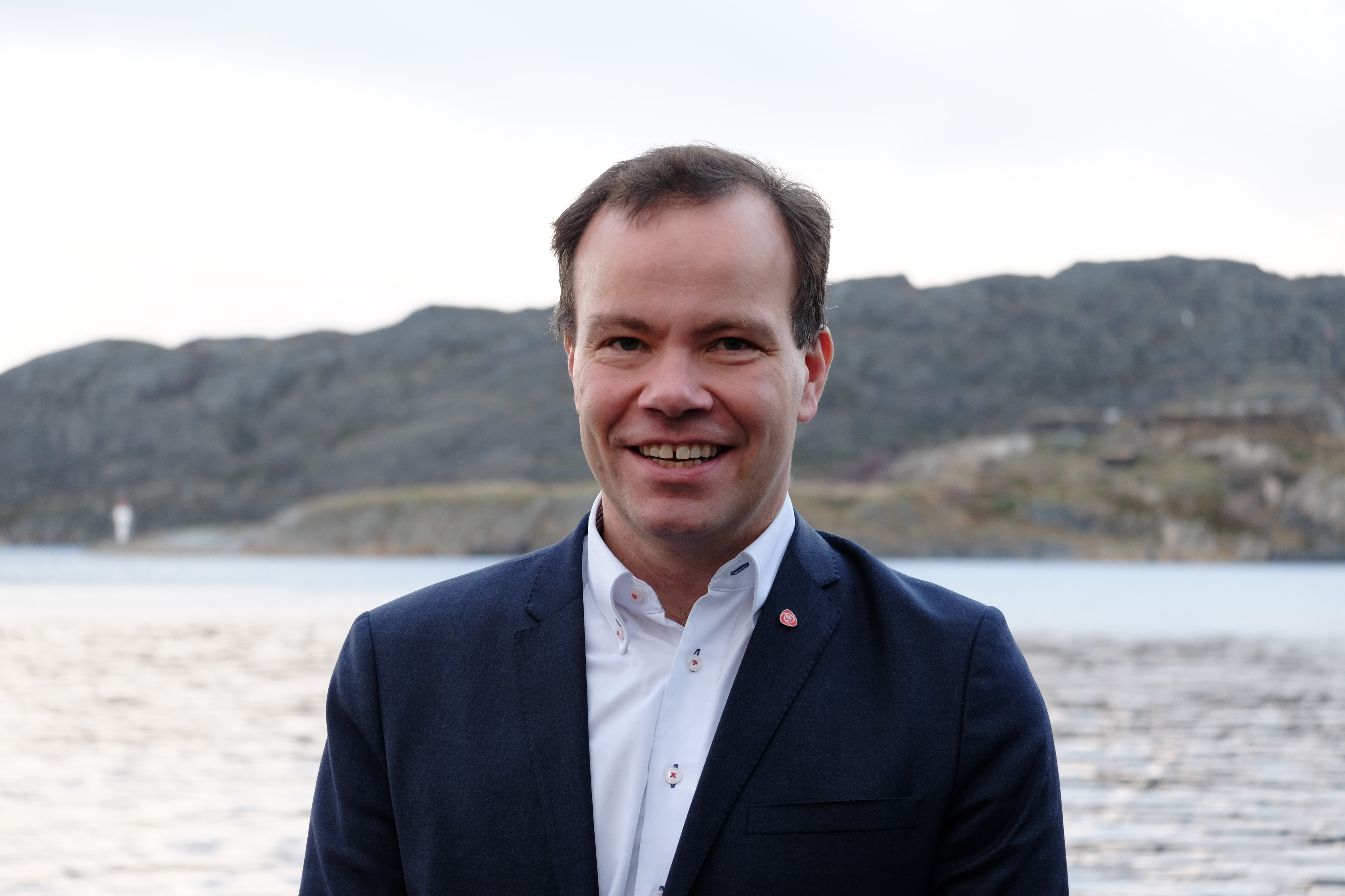 Foto: John Trygve Tollefsen